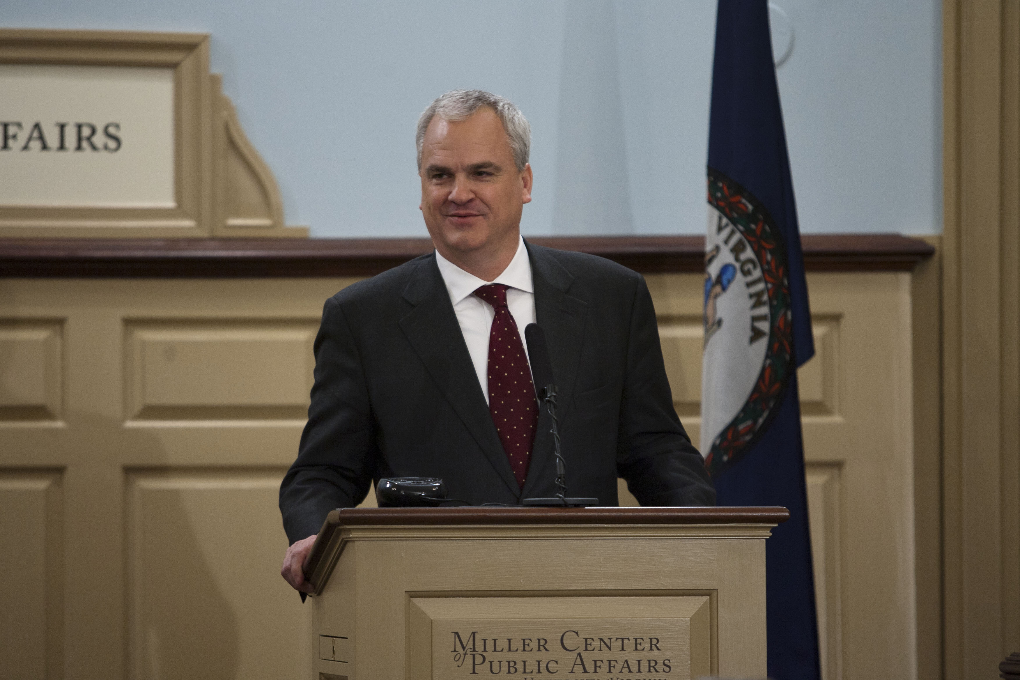 The Miller Center is delighted to announce DOUGLAS A. BLACKMON as the new chair of the Forum Program. Blackmon is The Wall Street Journal's senior national correspondent and the Pulitzer-Prize winning author of "Slavery by Another Name." Governor Gerald Baliles will introduce him at a special Forum on Martin Luther King Day. Held on January 16, 2012. Miller Center, Charlottesville, VA. For more information, visit .